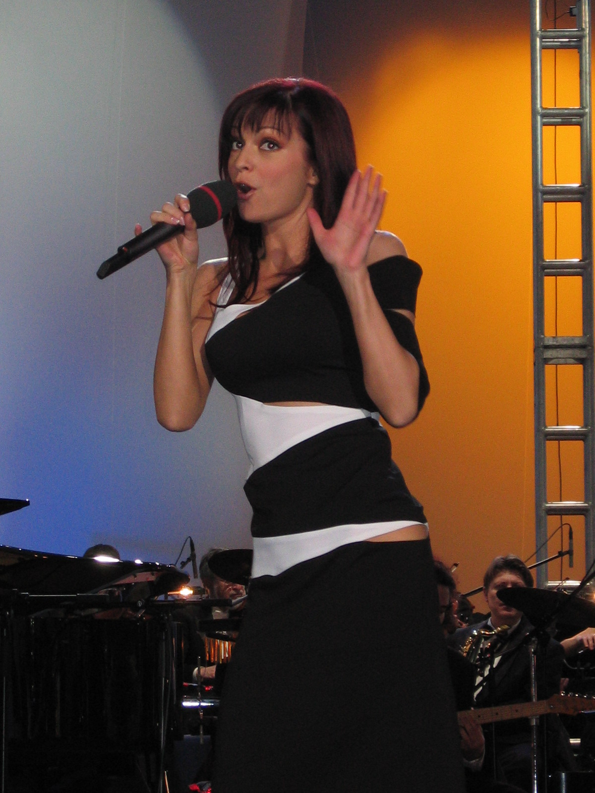 Natalija Verboten, Slovene singer of pop music.